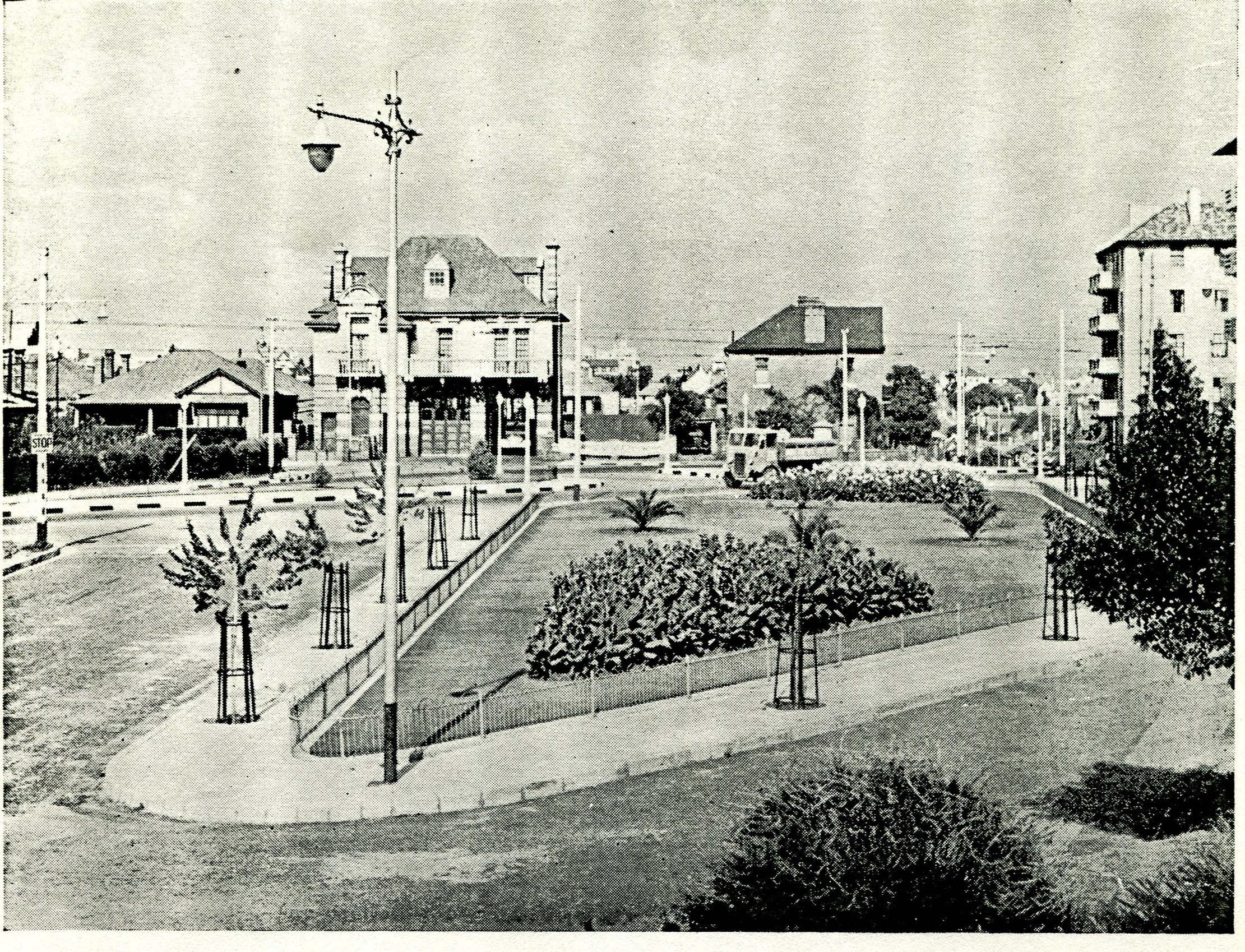 These are works from the Johannesburg Heritage Foundation with the Joburgpedia project which I'm the Wikipedian in Residence. This picture depicts the Berea fire station which was built in 1910. The building is found in Johannesburg Berea.